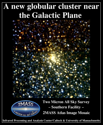 Globular Cluster 2MASS-GC02 (Hurt 2)